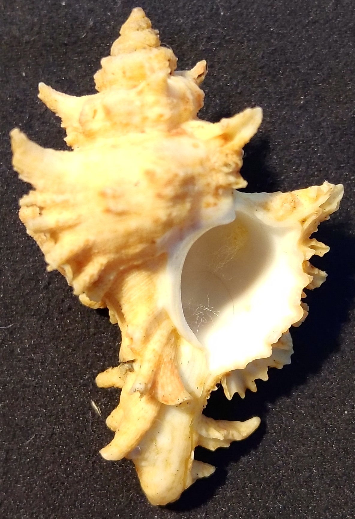 Chicoreus Austramosus Front